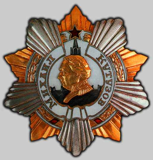 Order of Kutuzov 1st class